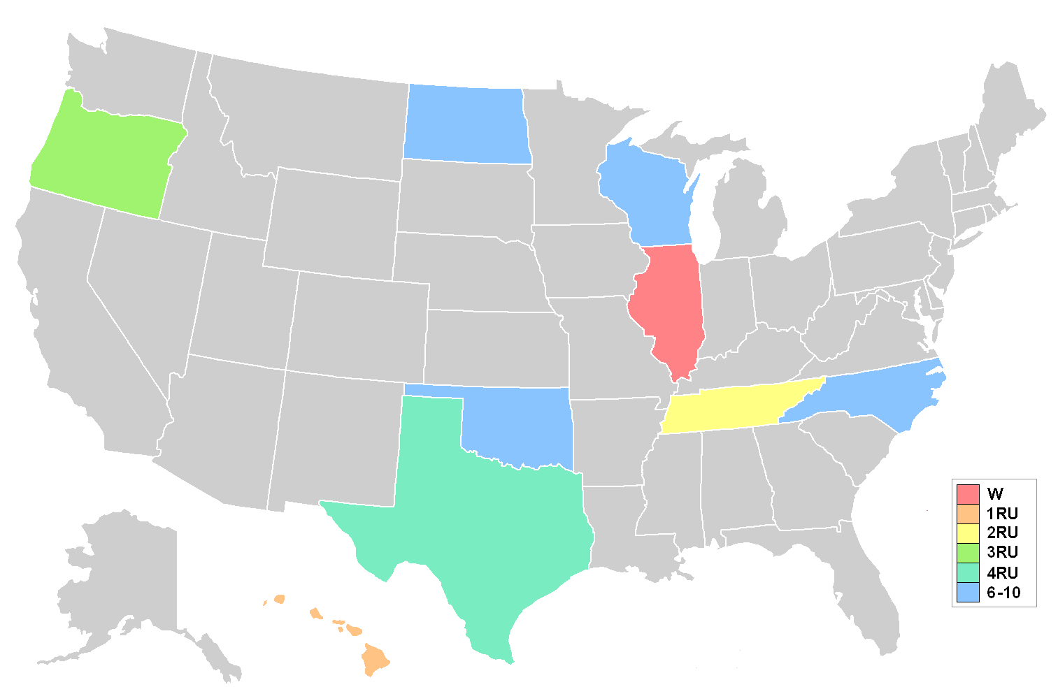 Map showing placements at the Miss Teen USA 1984 pageant. Key on graphic shows colour coding for break down of placements.